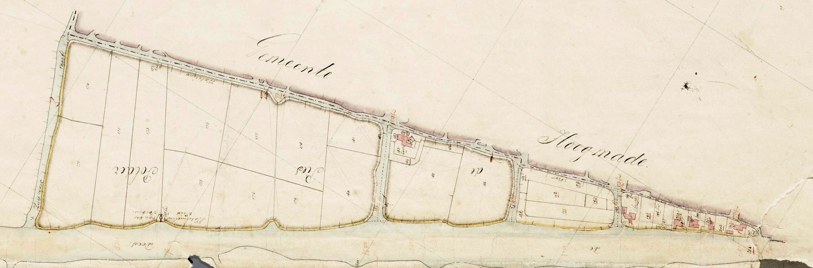 The Piest polder on a (section of a) cadastral map of 1829, and erroneously mentioned as Pies polder. The polder is located close to Hoogmade, municipality of Kaag en Braassem (Province of South Holland, Netherlands). The full map shows not one but four polders: the Does polder, the Kooij Polder, the Piest polder and the Voorofsche polder, and the surrounding waters, like the Does. The displayed area was part of the municipality Woubrugge in 1829; this municipality ceased to exist in 1991. The text on the (full) map reads (translated from Dutch): Municipality of Woubrugge in 3 Sections. Section A in 4 sheets called The Does. Sheet 2 with plots No. 170 to 373 bis. Measured by S.W. van der Noordaa, First Class Surveyor. Charted on a scale of 1 to 2500. The full map is also on Wikimedia as File: Netherlands, Kaag en Braassem, Doespolder, Kooijpolder, Piespolder, Voorofsche Polder.jpg